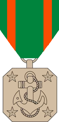 Navy and Marine Corps Achievement Medal